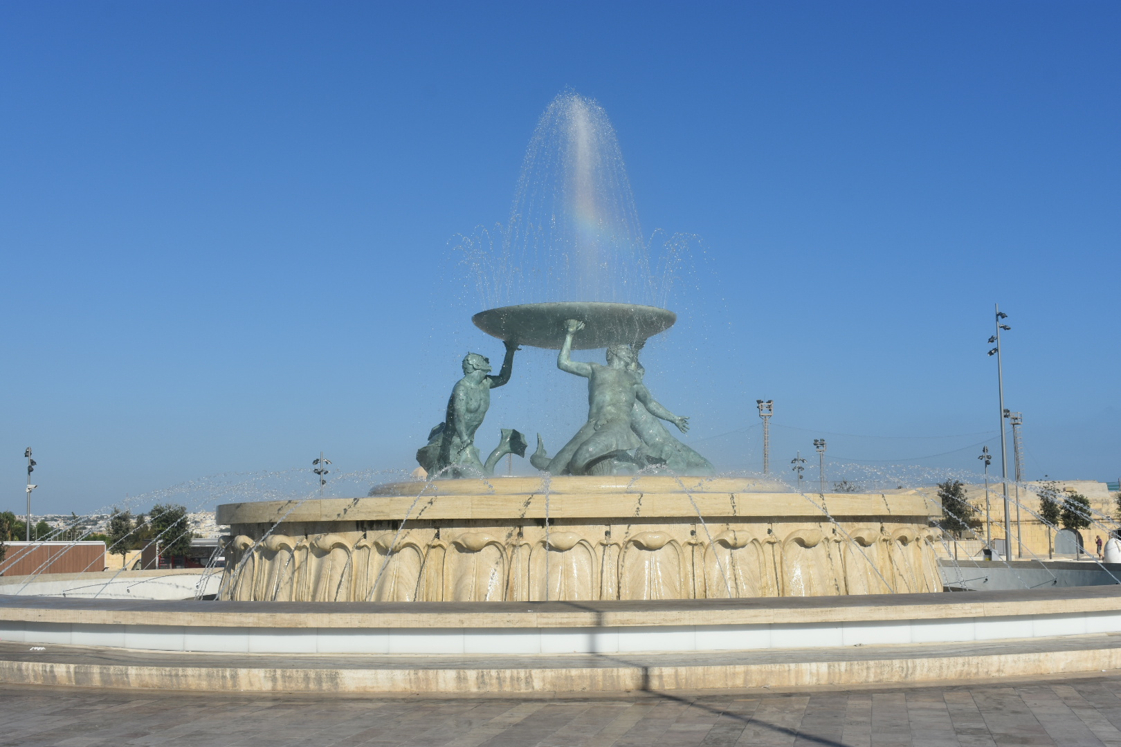 Triton Fountain This media is about Maltese cultural property with inventory number 01143.